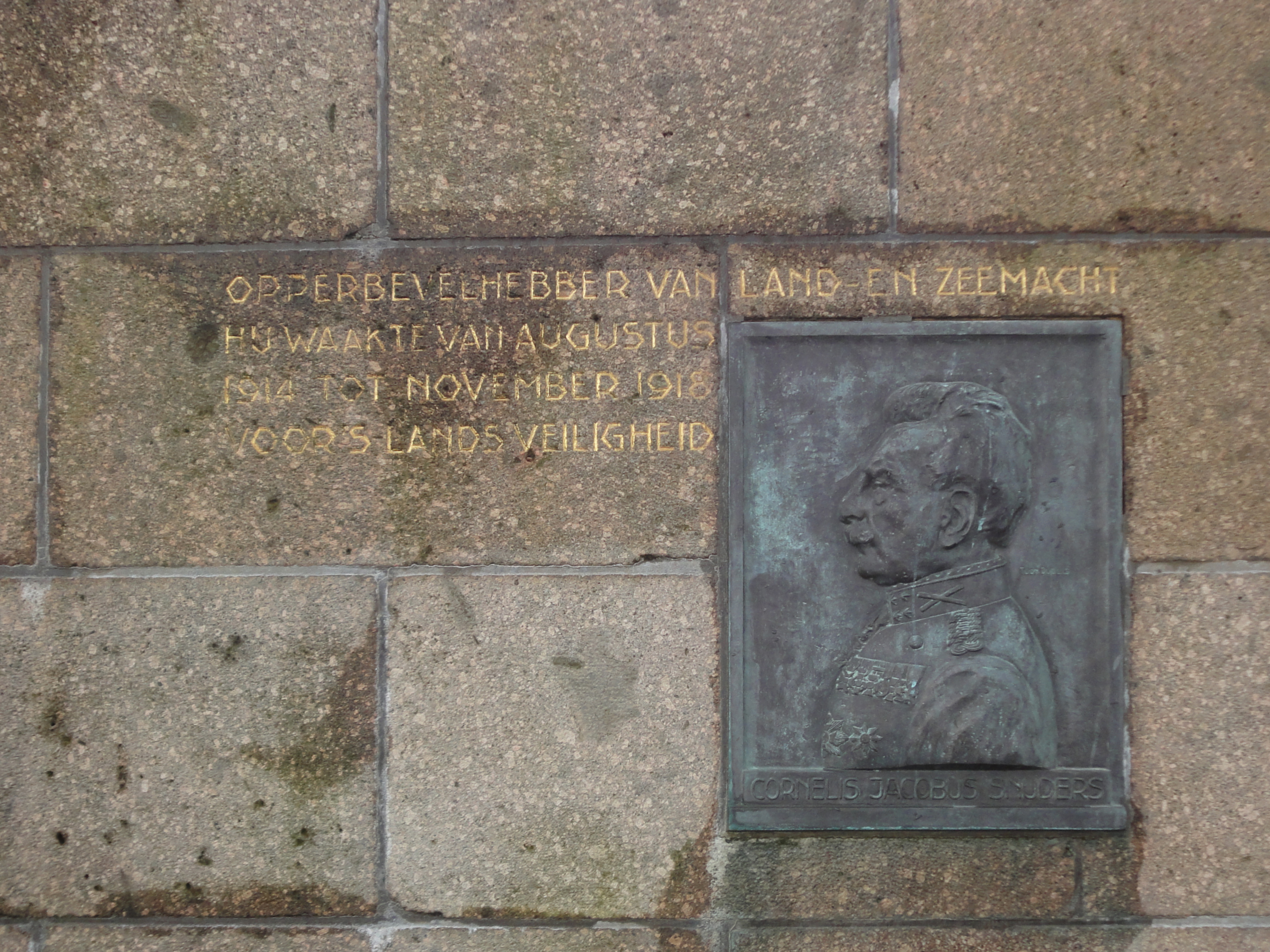 Commander-in-Chief of the ground forces and navy. He watched from Augurs 1914 to November 1918 over the countrie's safety"